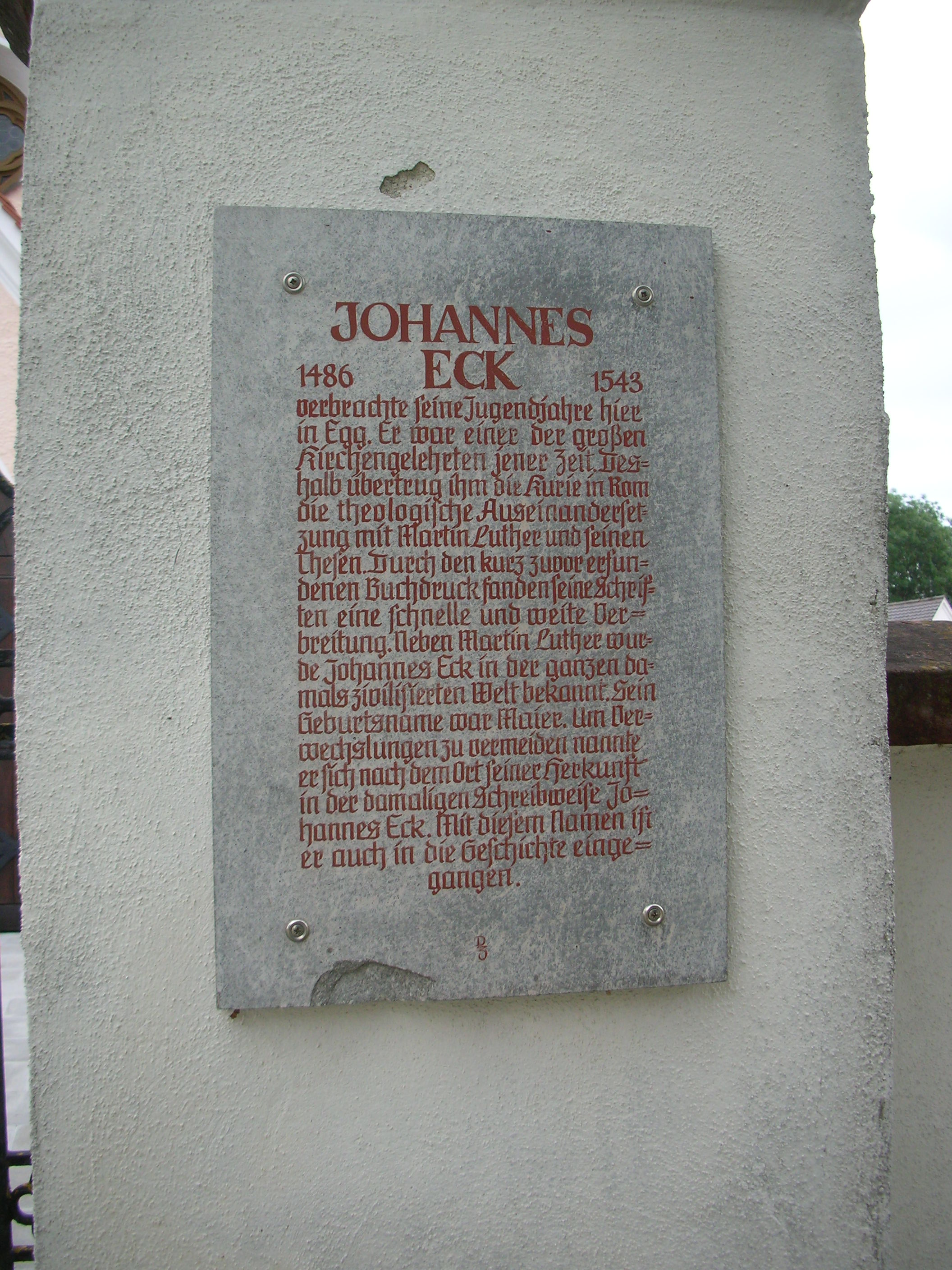 Memorial plate at the door to the churchyard at 87743 Egg an der Guenz, Germany, in honour of the Roman Catholic theologian Johannes Eck (1486-1543). The photo was taken on 6th September, 2012